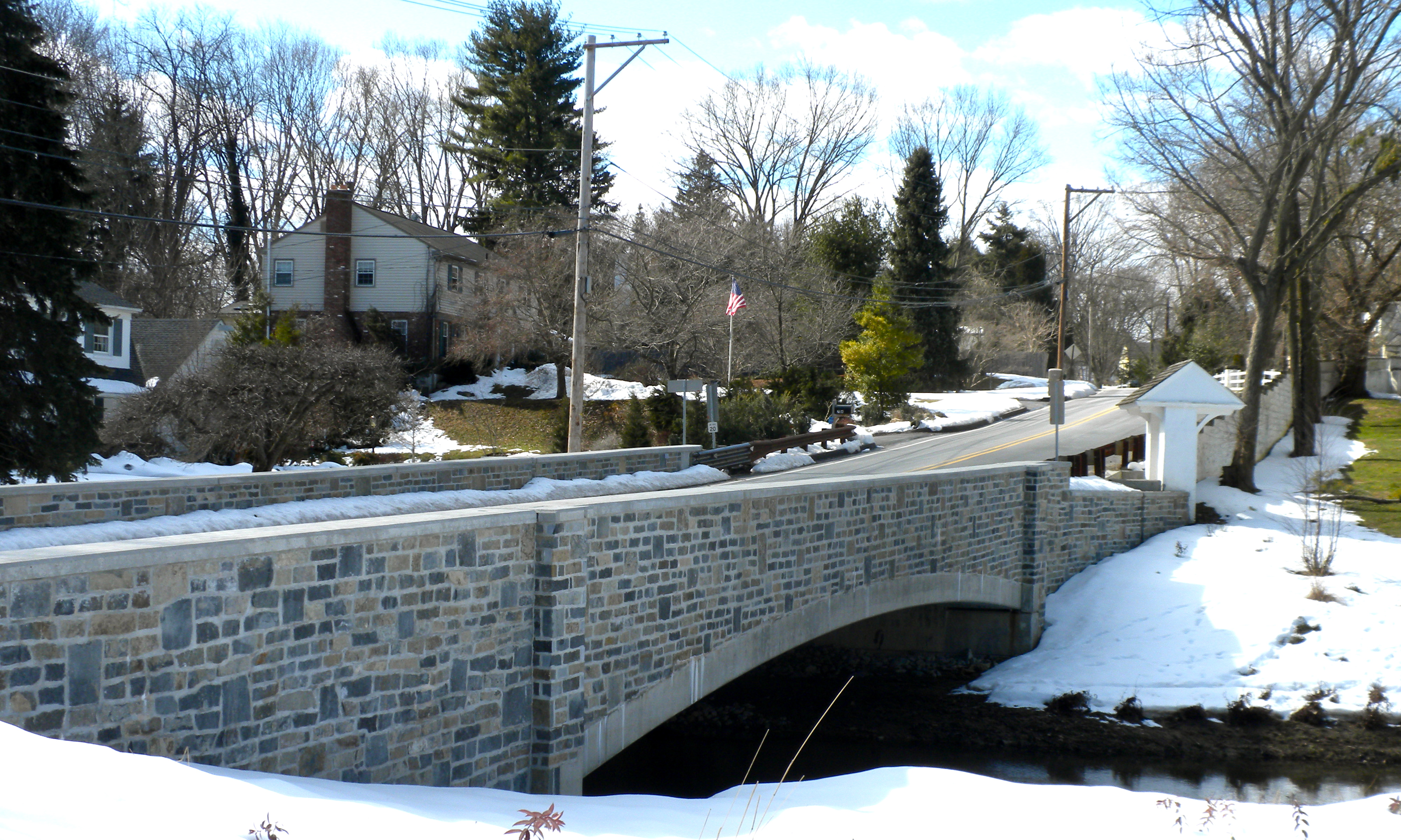 Bridge in Tredyffrin Township, Chester County, PA. On NRHP since June 22, 1988. On Gulph Road over Trout Run, near Port Kennedy. The bridge has recently gone under a pretty thorough restoration/reconstruction, probably last fall when construction crews were blocking access. Upscale neighborhood, just off Valley Forge National Park. Building next to the bridge "East Watch" out -of - photo, looks quite historic.